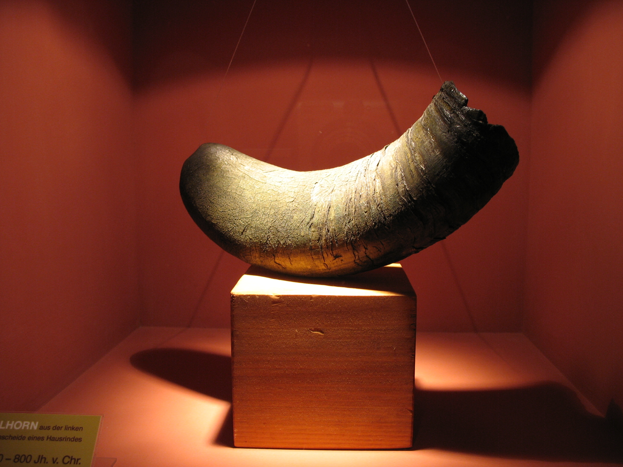 Drinking horn from the Hallstatt culture, 800-400 BC. Museum Hallstatt, Austria